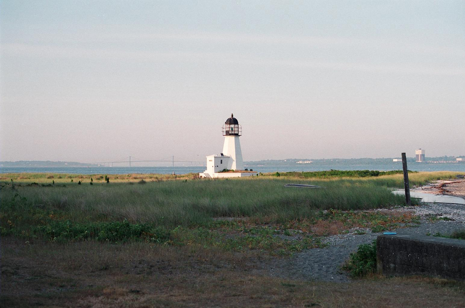 Sand Point Light on Prudence Island, RI. In the background is the Newport Bridge.